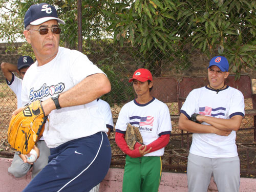 Baseball player Elías Sosa acting in his role as Bureau of Educational and Cultural Affairs Sports Envoy, at a pitching clinic in Nicaragua.